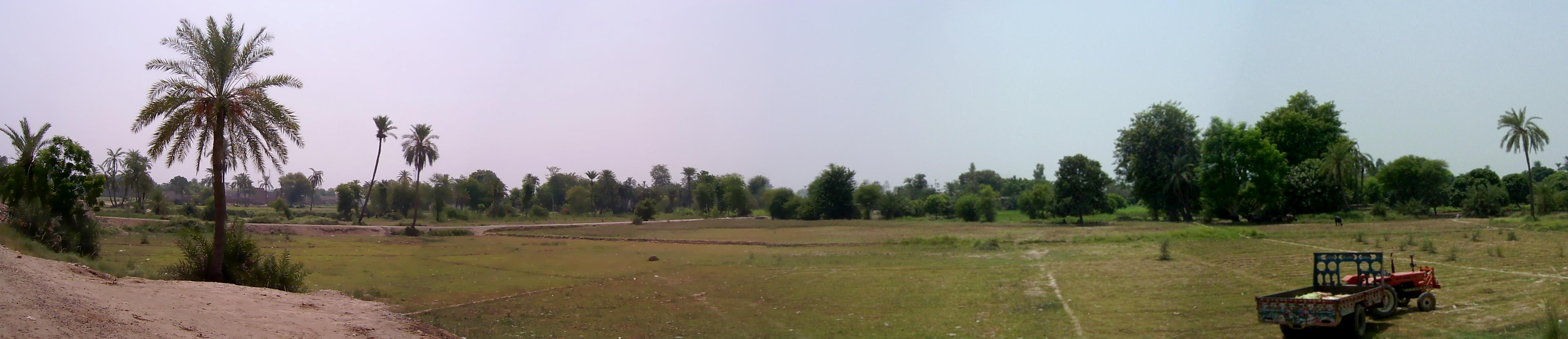 Panorama of a farm in Uch Sharif (Uch Sharef; Muzzafarghar District) – in Ali Pur or Liaqauatpur? – Punjab, Pakistan